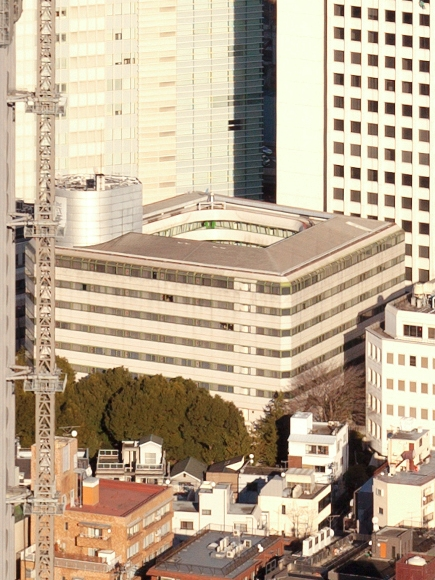 Former Roppongi Prince Hotel, view from Roppongi Hills' Mori Tower